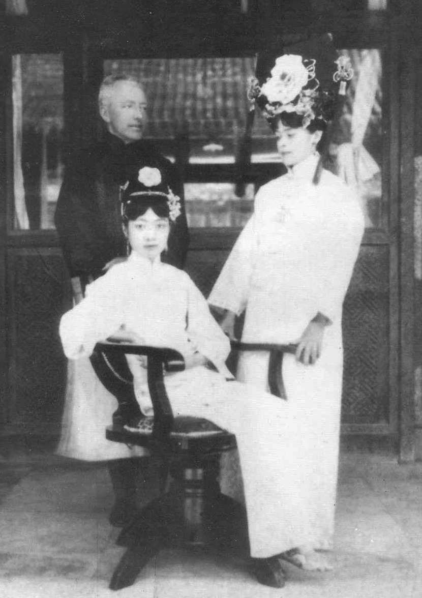 Picture of Reginald Johnston, Empress Wan Rong, and Isabel Ingram in the Forbidden City, Beijing, China. The context of the photo is given by Isabel Ingram's diary entry for June 11, 1924: Went in at 10:30 as usual. Surprised the Emperor playing the piano in the Chien Hsiao Kung. The Empress was combing her hair. I watched the process. The Emperor came in and started to tickle her and was cutting up the whole day. It was suggested that my hair be combed Manchu style again. The Emperor agreed at once and sent for a photographer, also said he would dress Johnston up, too. The Emperor went over for him and brought him back to the Empress's palace before we were ready. They all watched the process. It took quite awhile -- making new parts, etc. Liu combed it again. I wore a light green gown with a lavender chin shih, which the Empress gave me afterwards.